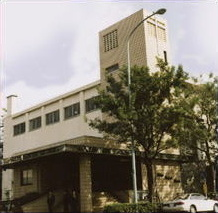 Tokyo Baptist Church.